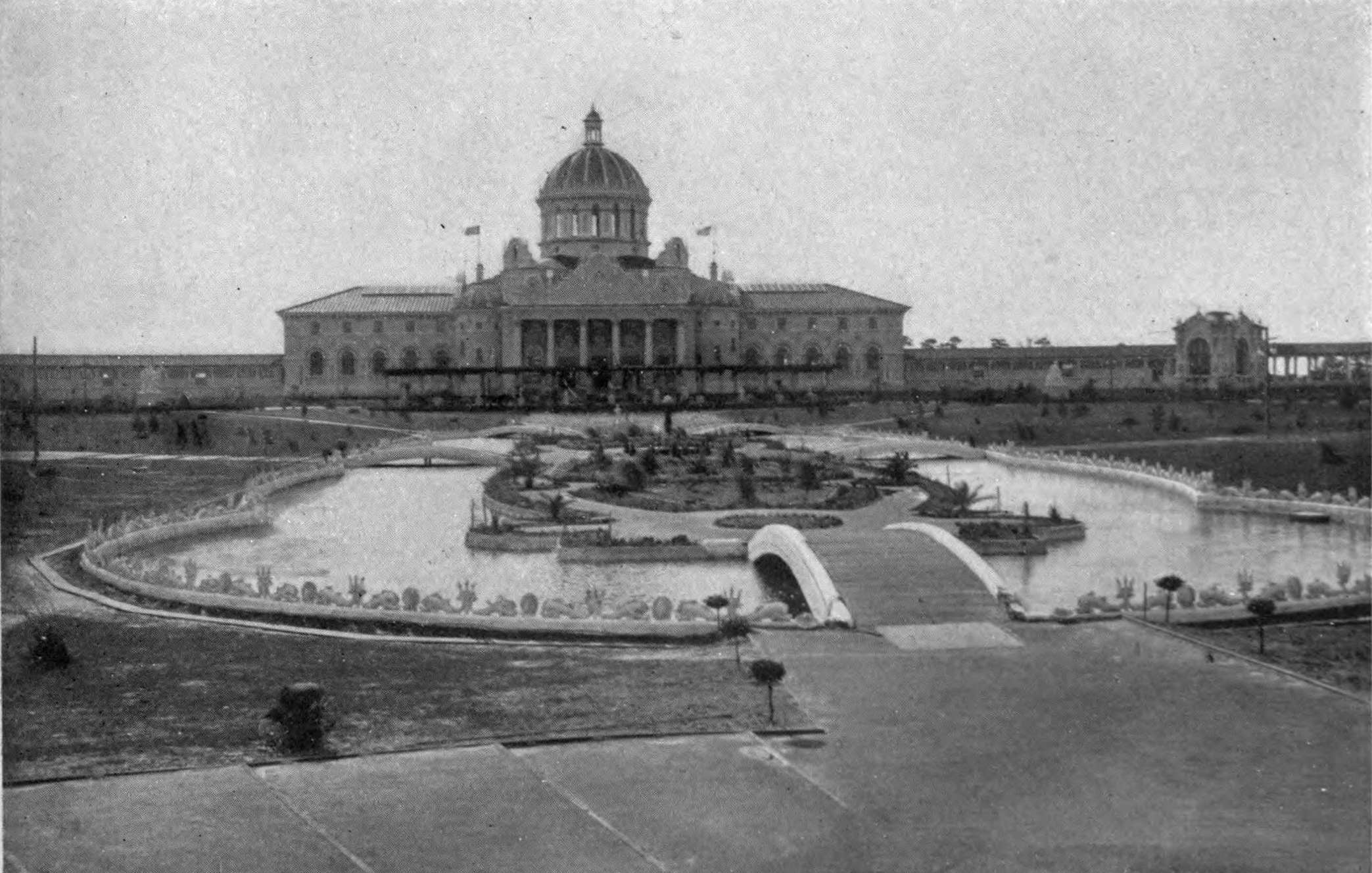 Photograph of the Cotton Palace and the Sunken Garden at the South Carolina Inter-State and West Indian Exposition